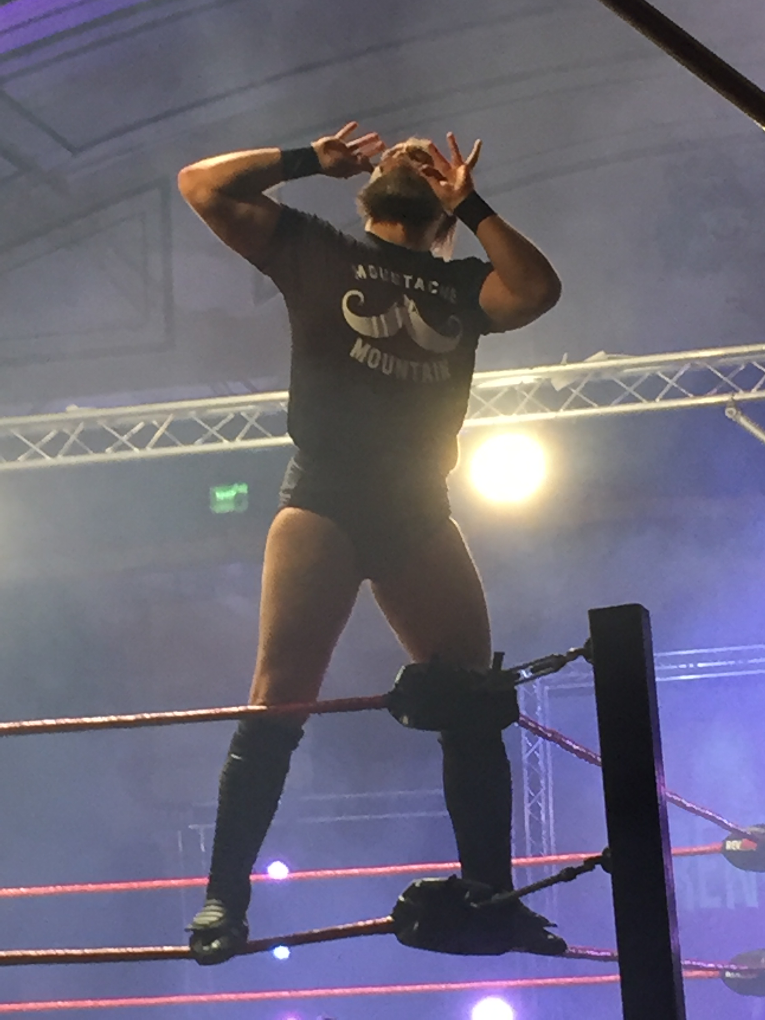 Trent Seven at RPW High Stakes on January 21, 2017.